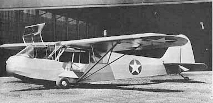 Piper TG-8A Glider